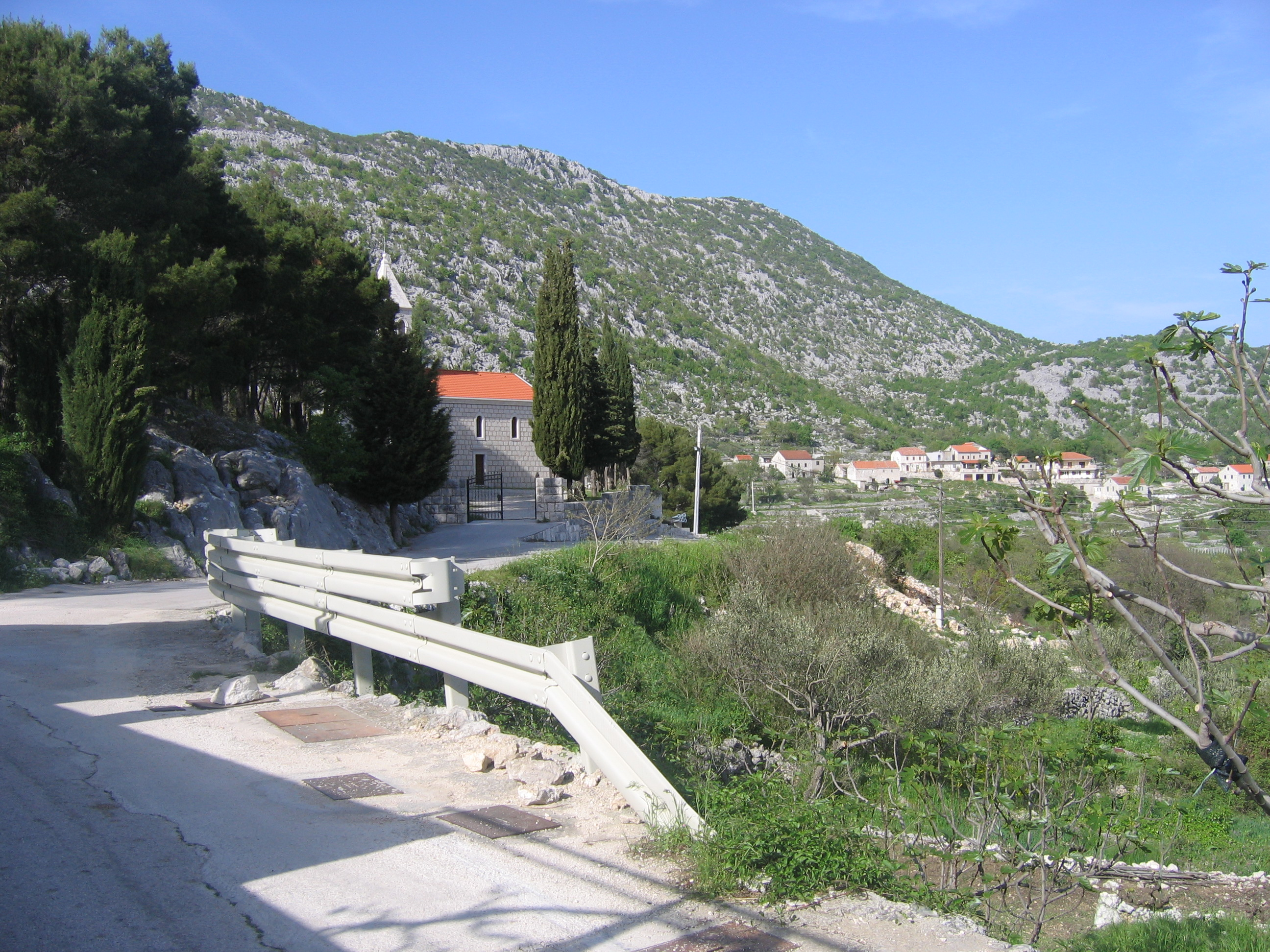 The new church in Seoca